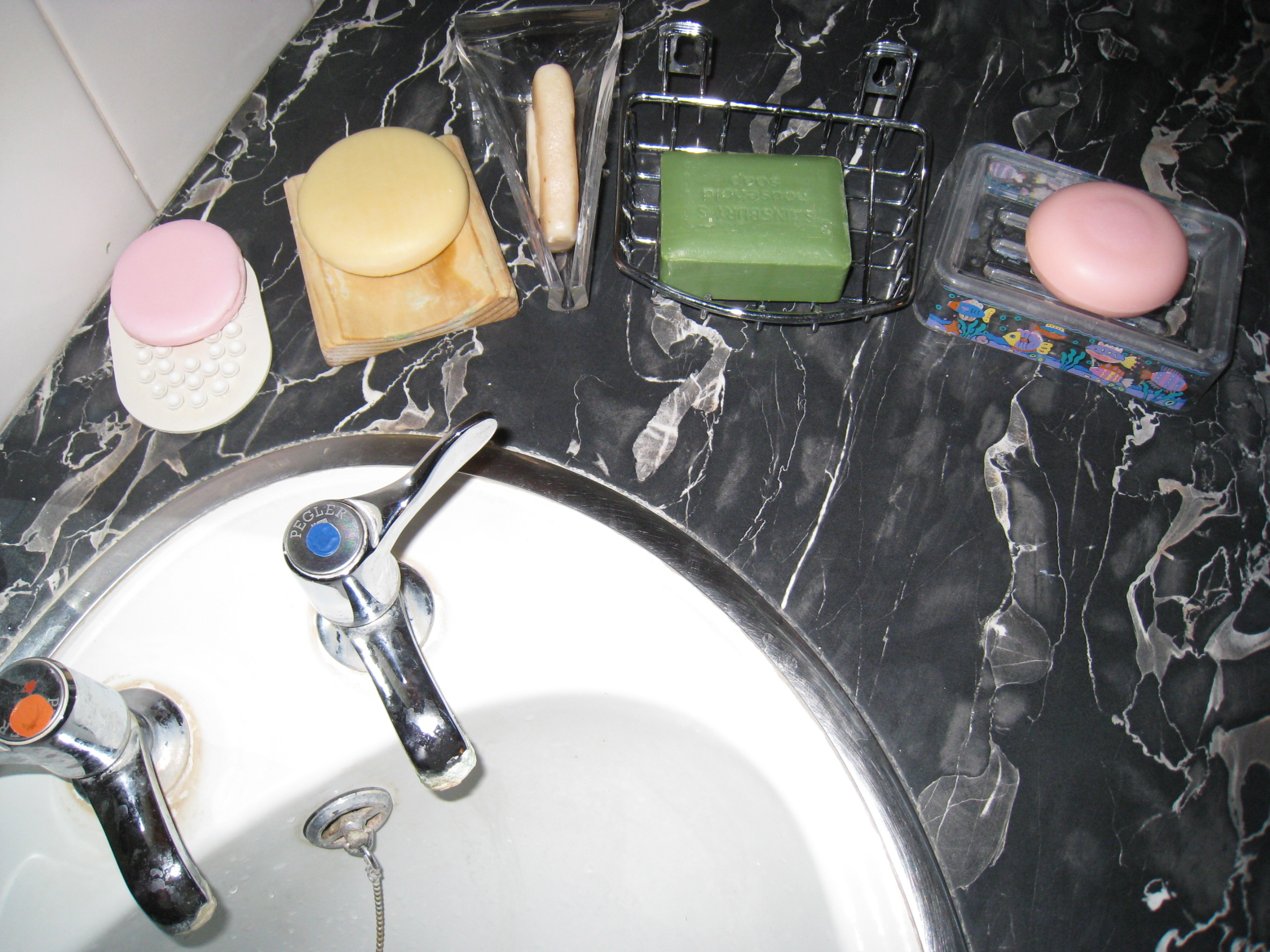 These designs are functional as well as elegant. They keep a soap tablet in good condition